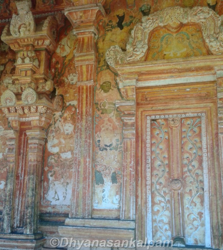 തൊടീക്കളം ചിത്രങ്ങൾ 1